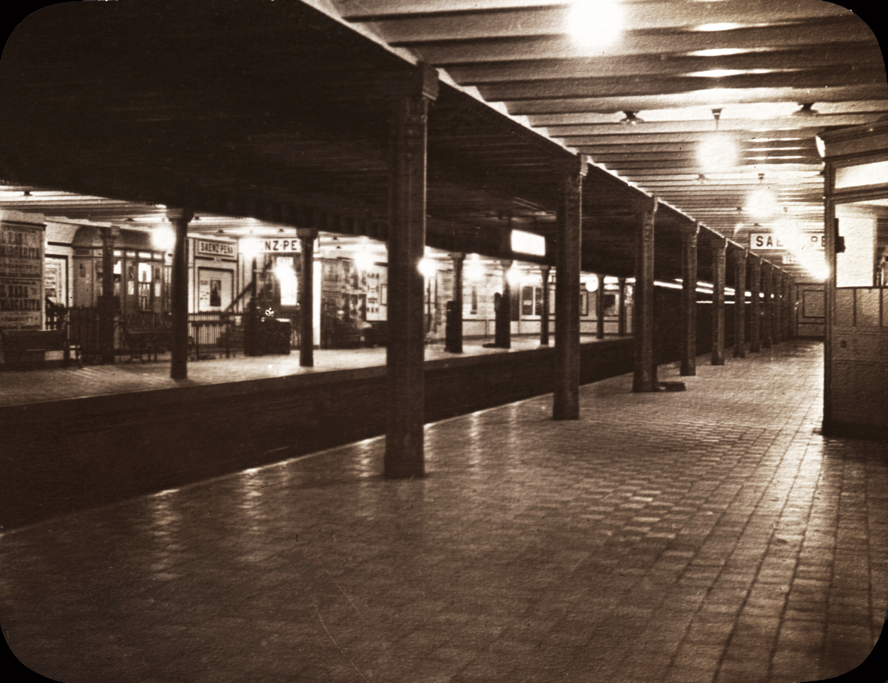 Buenos Aires Subway for Electric Line